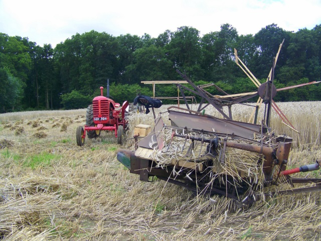 Reaper/binder, Bottlesford. A reaper/binder is a machine that cuts grain and binds it in sheaves. The earlier machines simply cut the crop and left it on the ground for gathering by hand into sheaves. By the last quarter of the nineteenth century, an effective knotting mechanism had been devised so that the machine could tie the sheaves as well. These binders, remained in common use until ultimately replaced by the combine harvester in the middle years of the twentieth century. The tractor is a Massey Harris. The crop is a wheat and reed hybrid and there were two machines working the field with a gang of men stacking the sheaves into stooks.